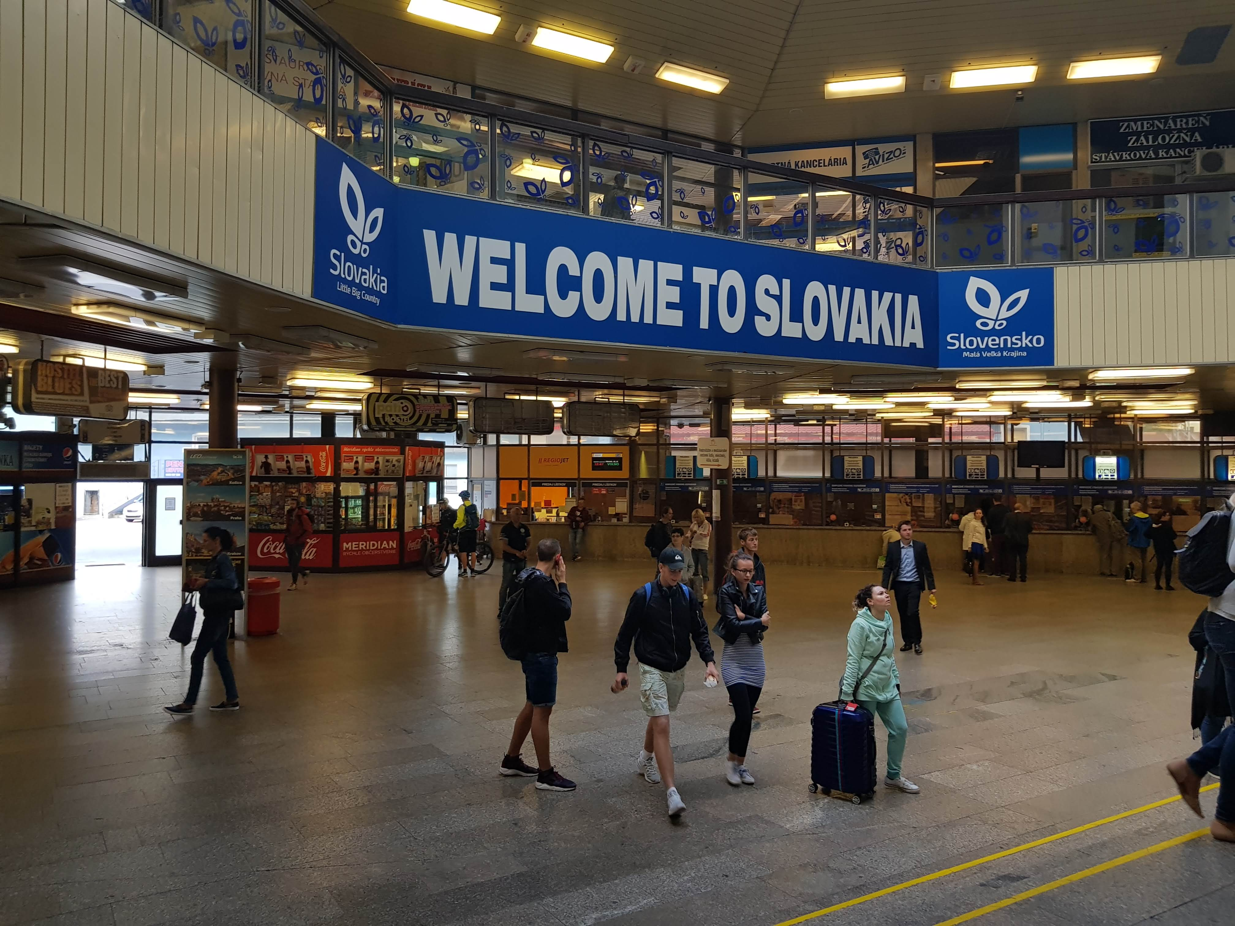 Bratislava hlavná stanica